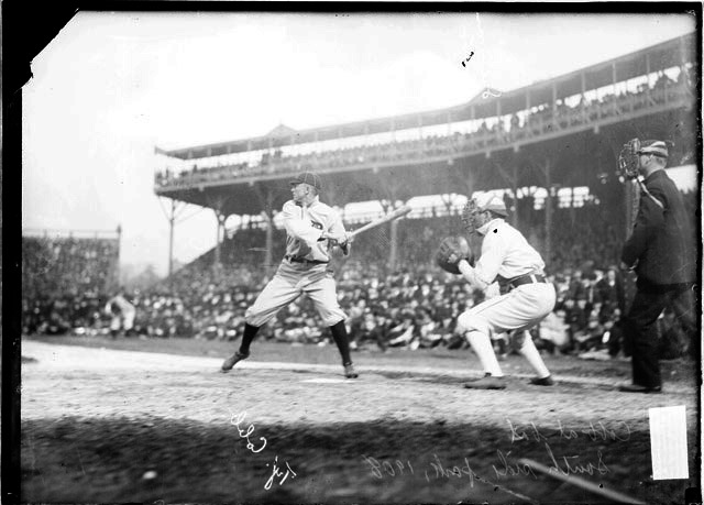 Ty Cobb batting in 1908 at Chicago.